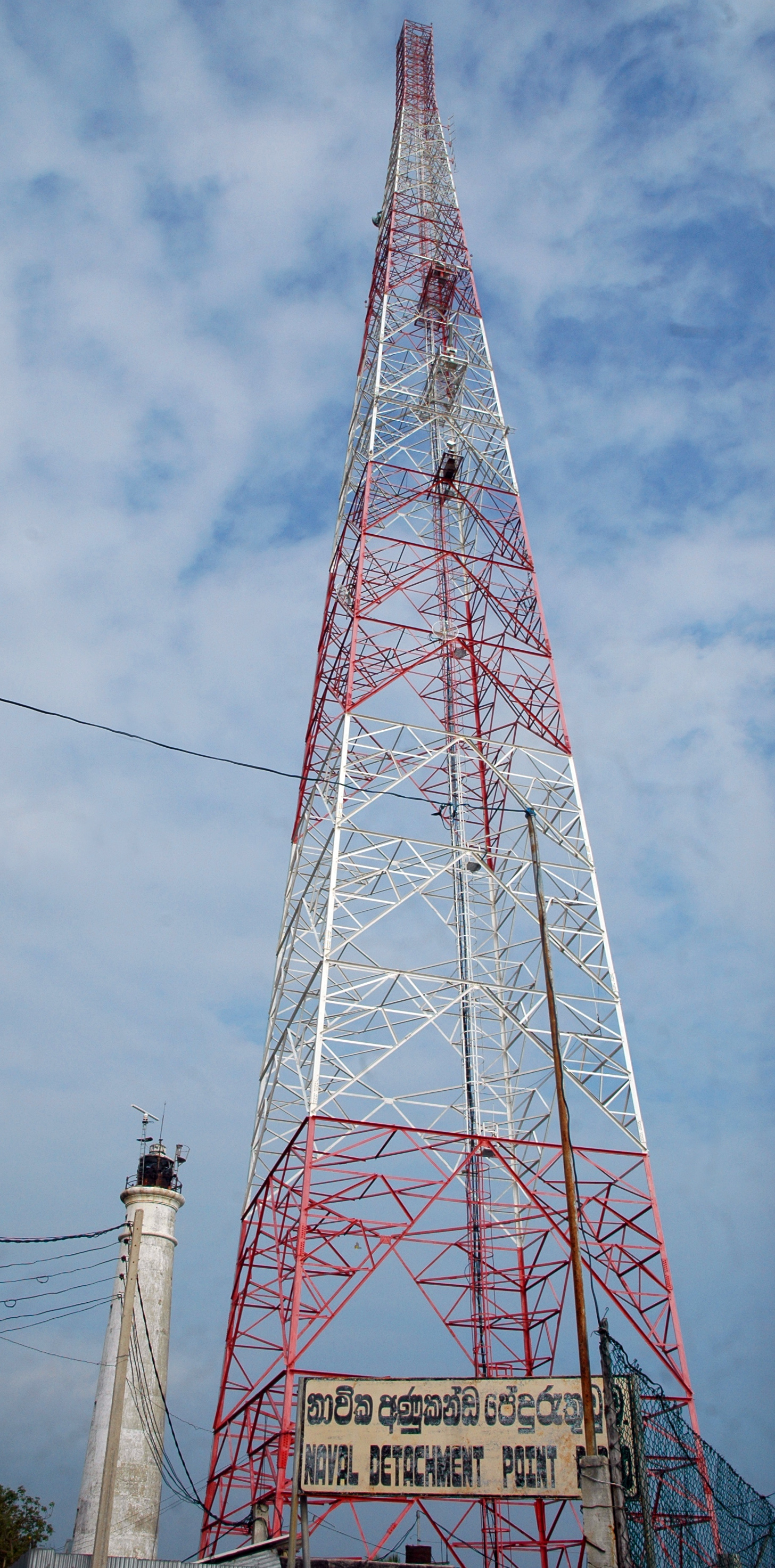 Mobile transmission tower at Point Pedro lighthouse.